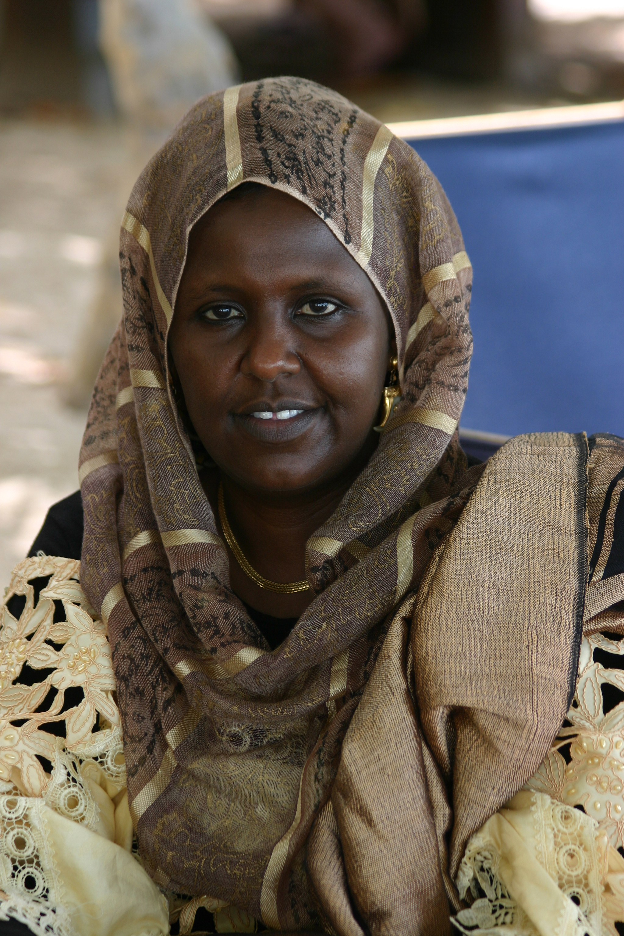 Asha Haji Elmi.